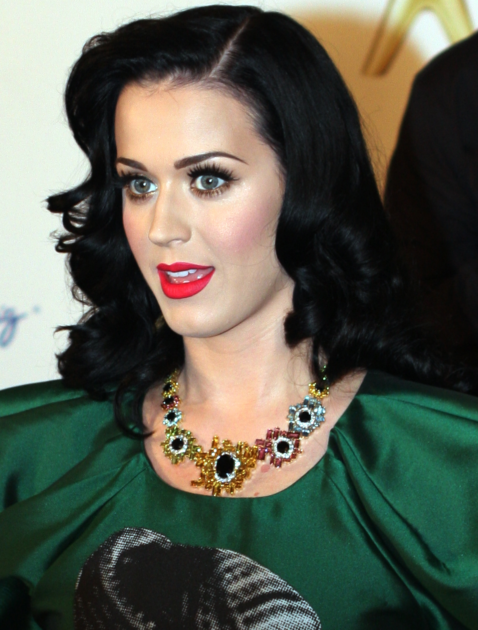 Katy Perry at the 2011 Logie Awards